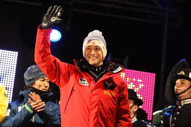 Andreas Kofler after individual competition of FIS Ski-Flying World Championships 2012.